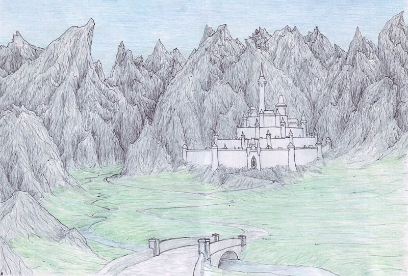 Minas Ithil